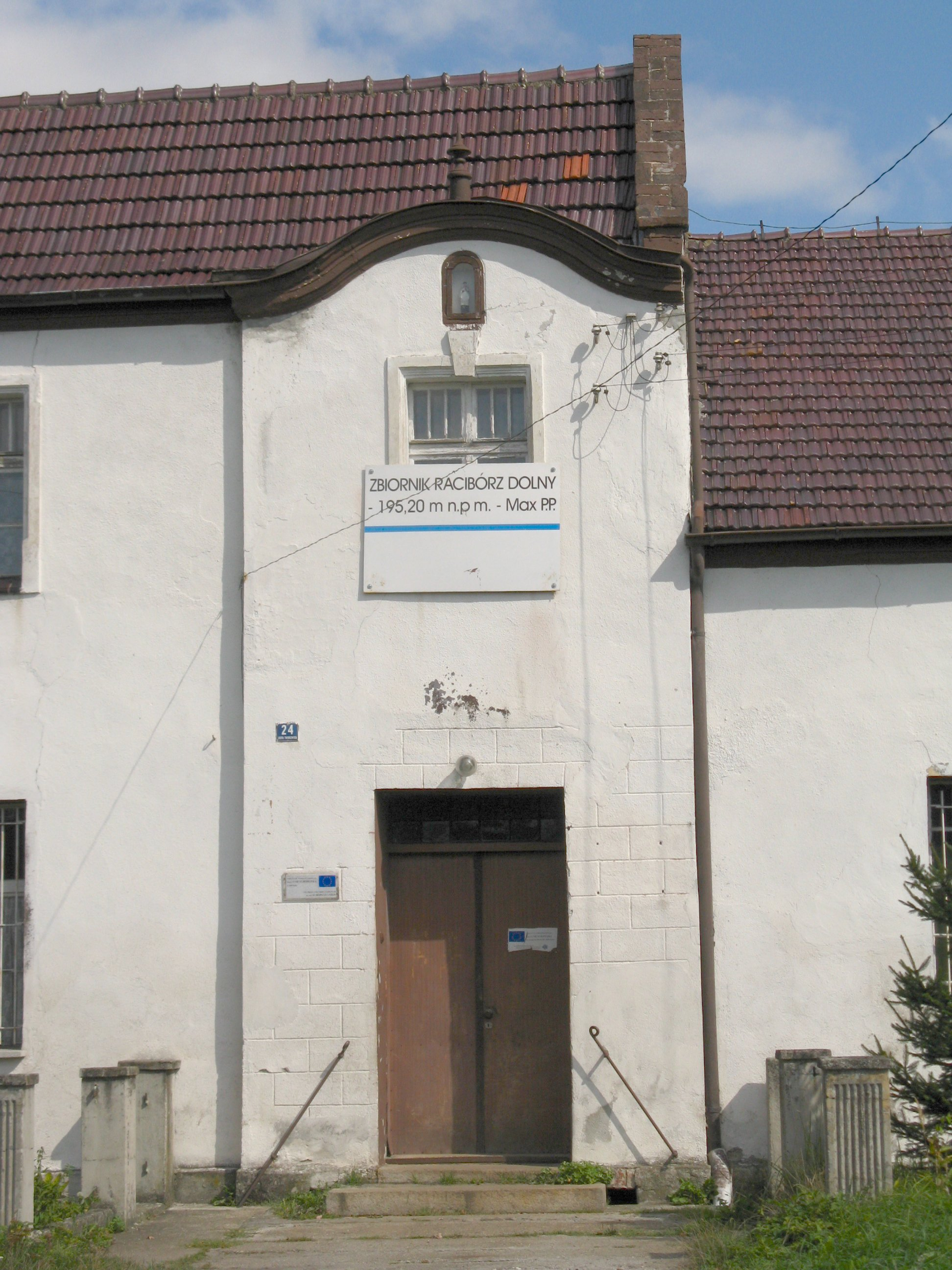 Polish village Ligota Tworkowska.